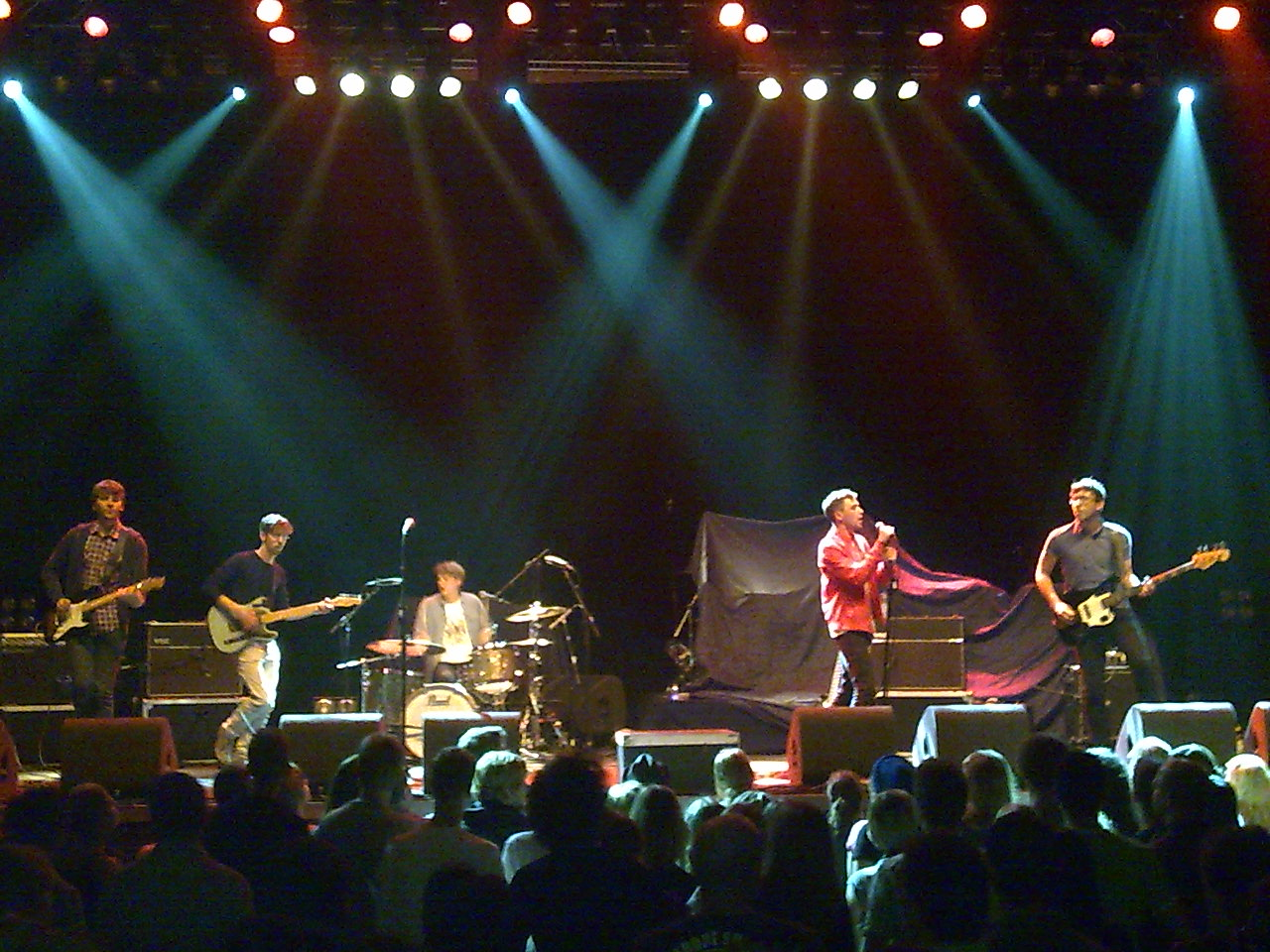 Pete & the Pirates performing live at 013, Tilburg, the Netherlands